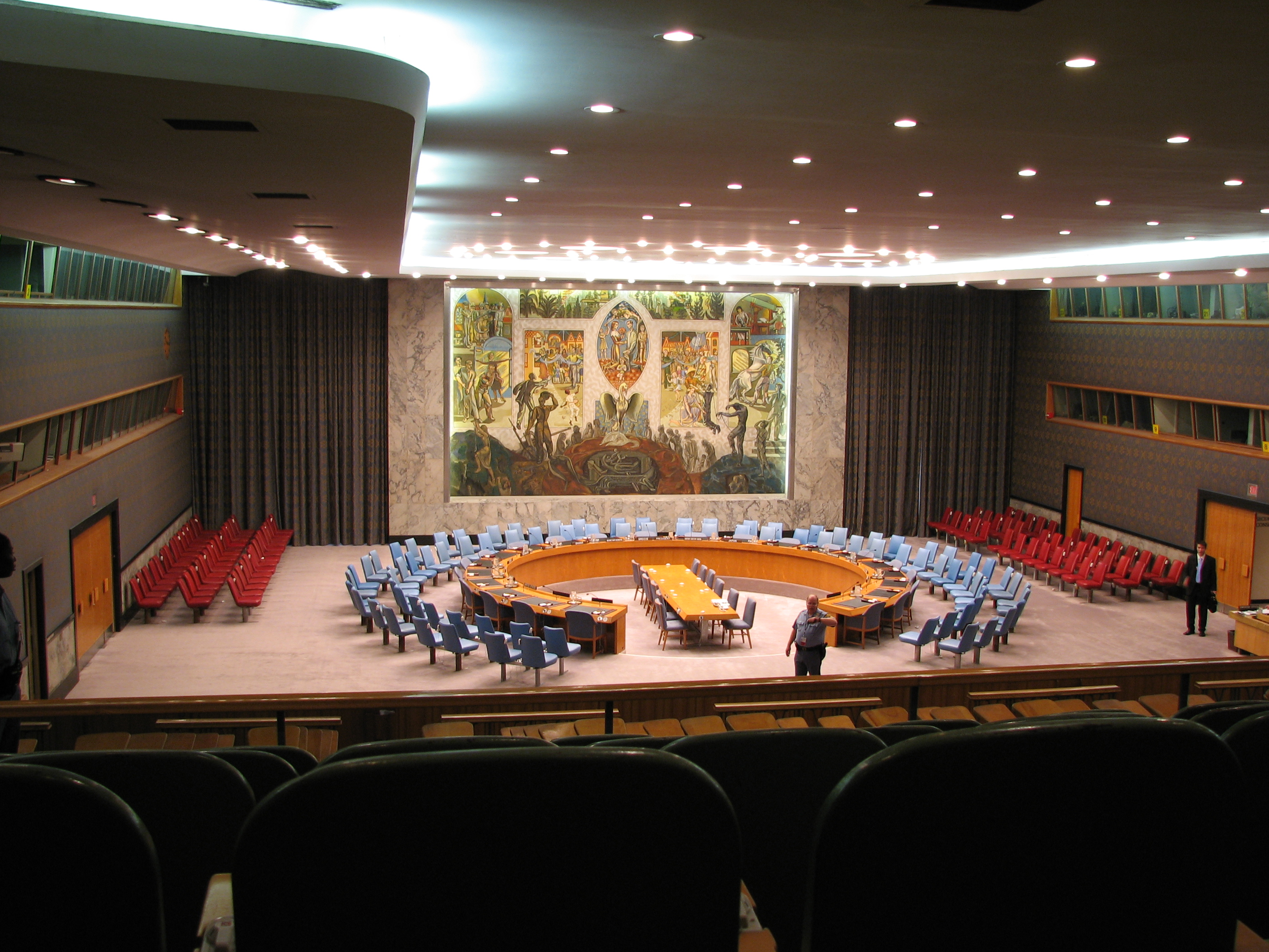 United Nations, Security Council hall